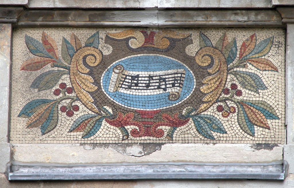 Brunswick, Germany: 19th century mosaic on the ruins of the “Handelshof” Hotel, destroyed in World War II (picture taken in Mai 2006).